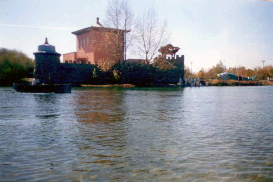 Artificial Lake Castle, mock castle in the middle of the National Amusement Park in city Ulaanbaatar, Mongolia